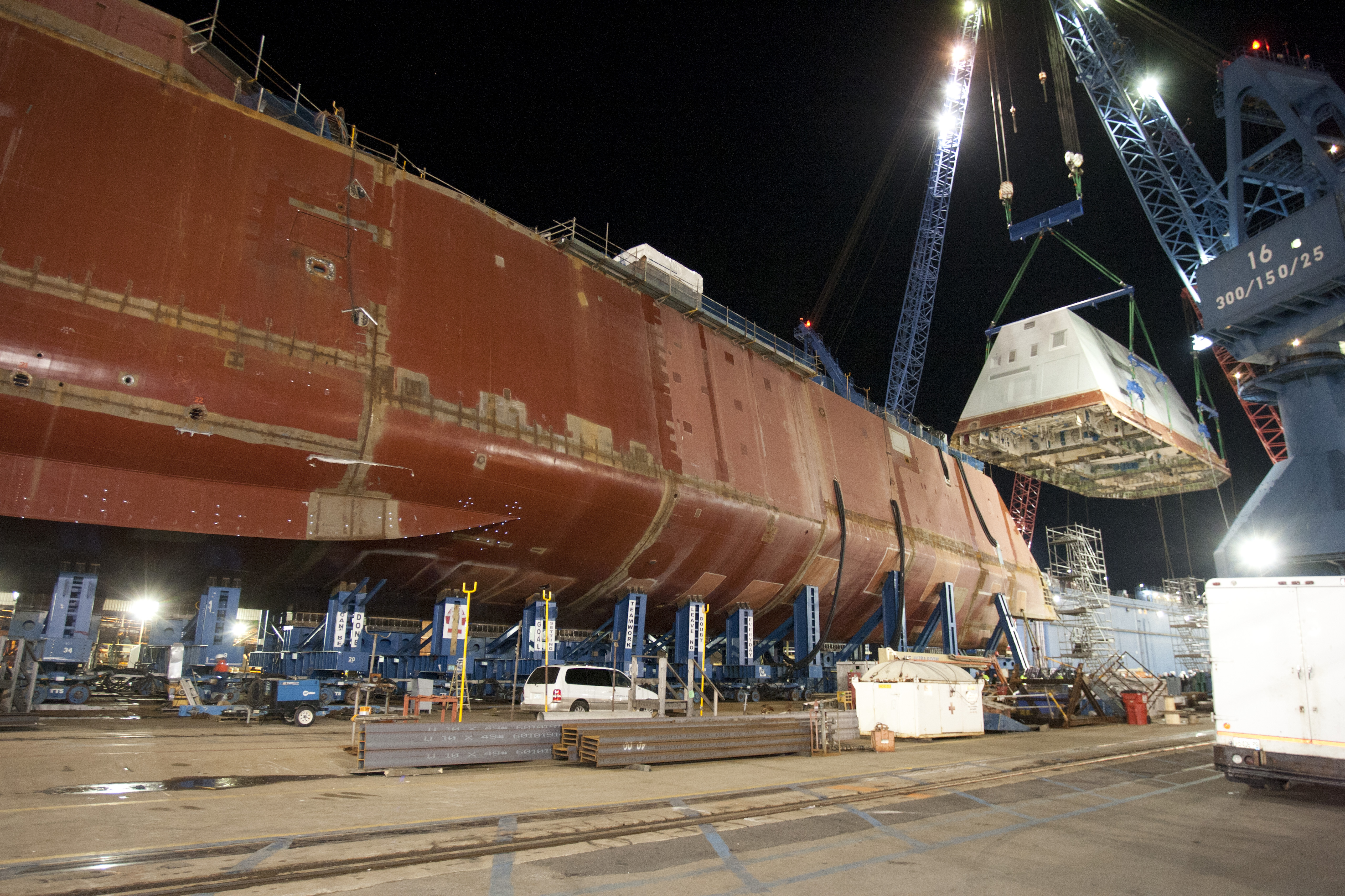 BATH , Maine (Dec. 14, 2012) The 1,000-ton deckhouse of the future destroyer USS Zumwalt (DDG 1000) is craned toward the deck of the ship to be integrated with the ship's hull at General Dynamics Bath Iron Works. The ship launch and christening are planned in 2013. (U.S. Navy photo/Released) 121214-N-ZZ999-203 Join the conversation navylive.dodlive.mil